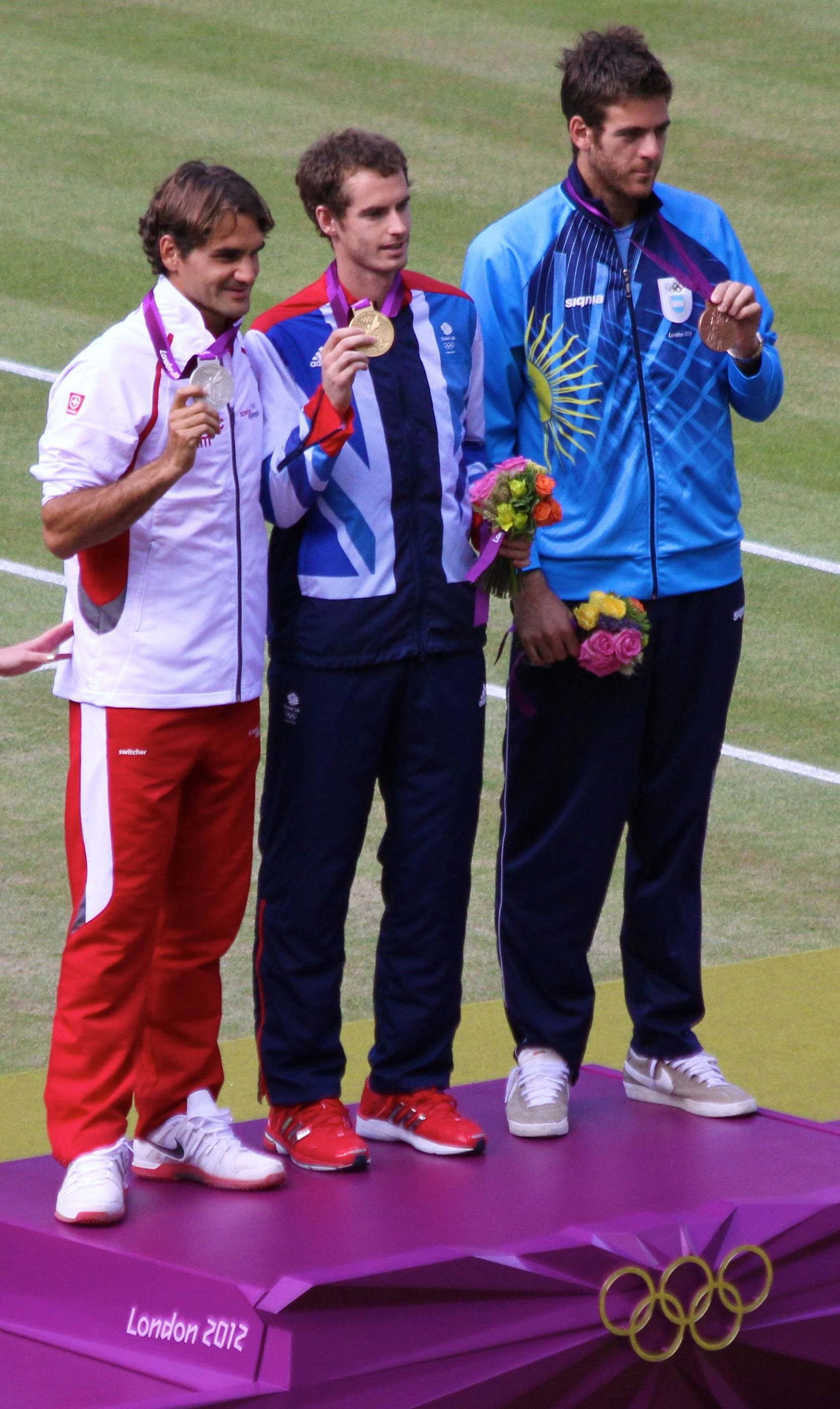 Murray, having fun, wins Olympic tennis at Wimbledon